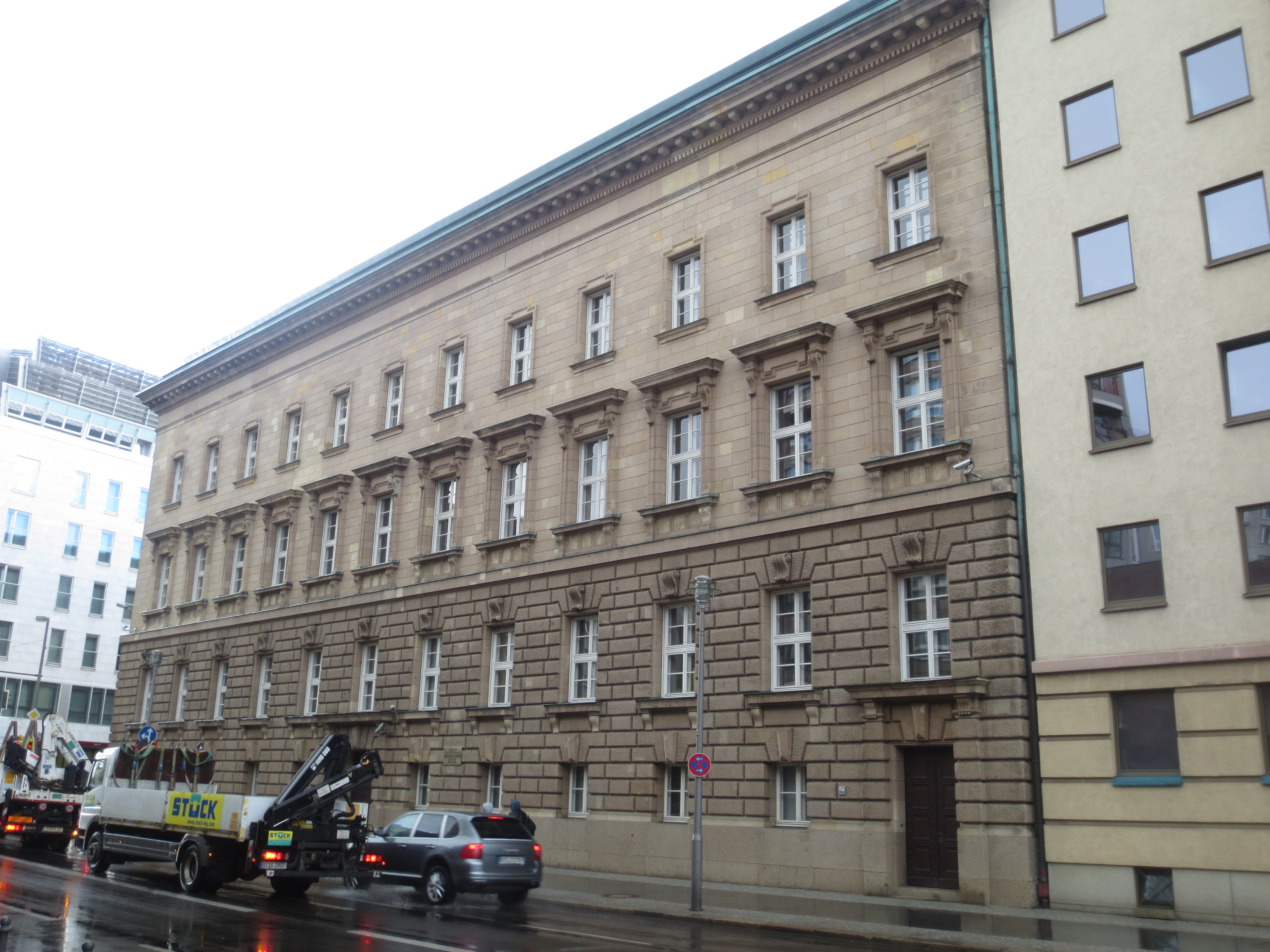 Behrenstrasse in Central, formerly eastern Berlin. In this house, Heinrich Heine lived from 1921 to 1922.